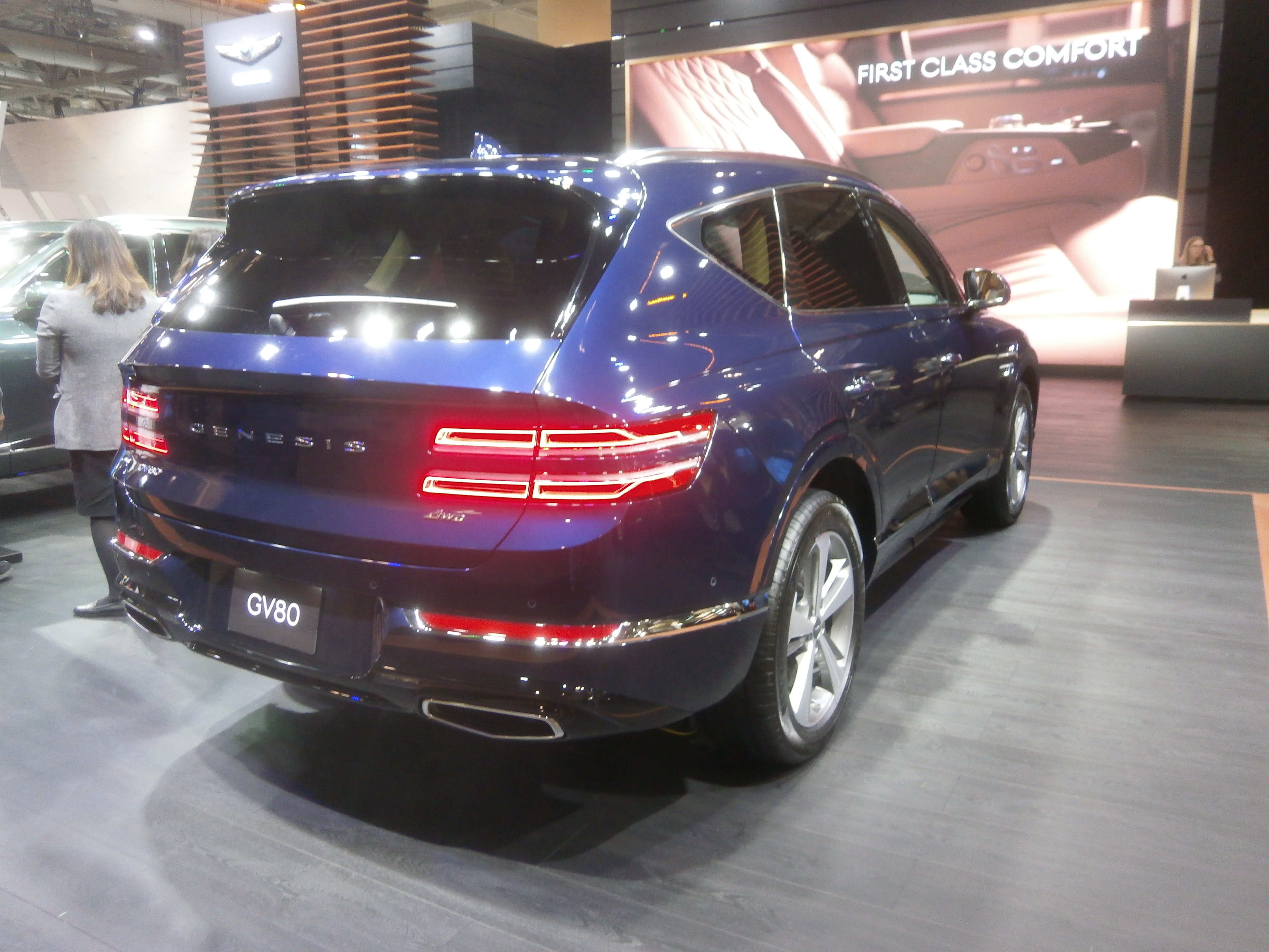 2021 Genesis GV80 photographed at the 2020 Canadian International Auto Show.